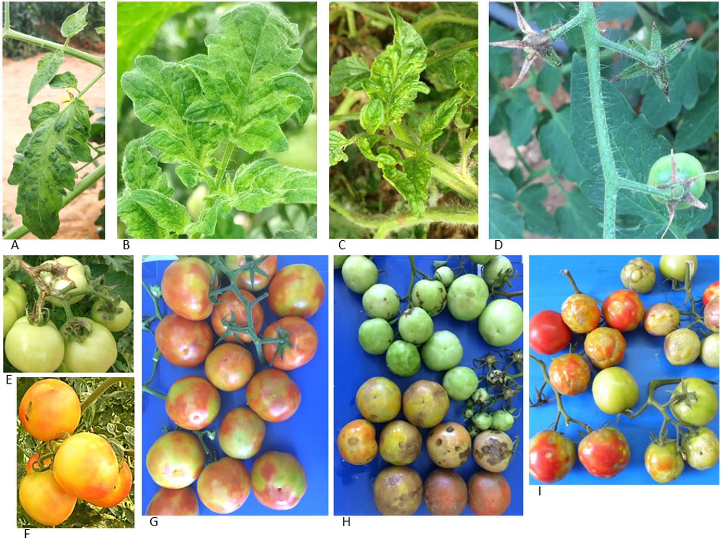 Naturally infected tomato plants. (A-C) Symptomatic mosaic pattern on leaves of cluster tomato plants cv. Mose. (C) Narrowing leaves of cluster tomato plants. (D) Dried peduncles and calyces on cherry tomato plants cv. Shiran leading to fruit abscission. (E) Necrotic symptoms on pedicle, calyces and petioles cv. Ikram. (F) Typical fruit symptoms with yellow spots cv. Mose. (G-I) Variable symptoms of tomato fruits cv. Odelia. (G) The typical disease symptoms. (H) Symptoms of mixed infections by the abundant TSWV and the new tobamovirus isolate. (I) Unique symptoms of the new tobamovirus isolate found at a single location at Sde-Nitzan village.